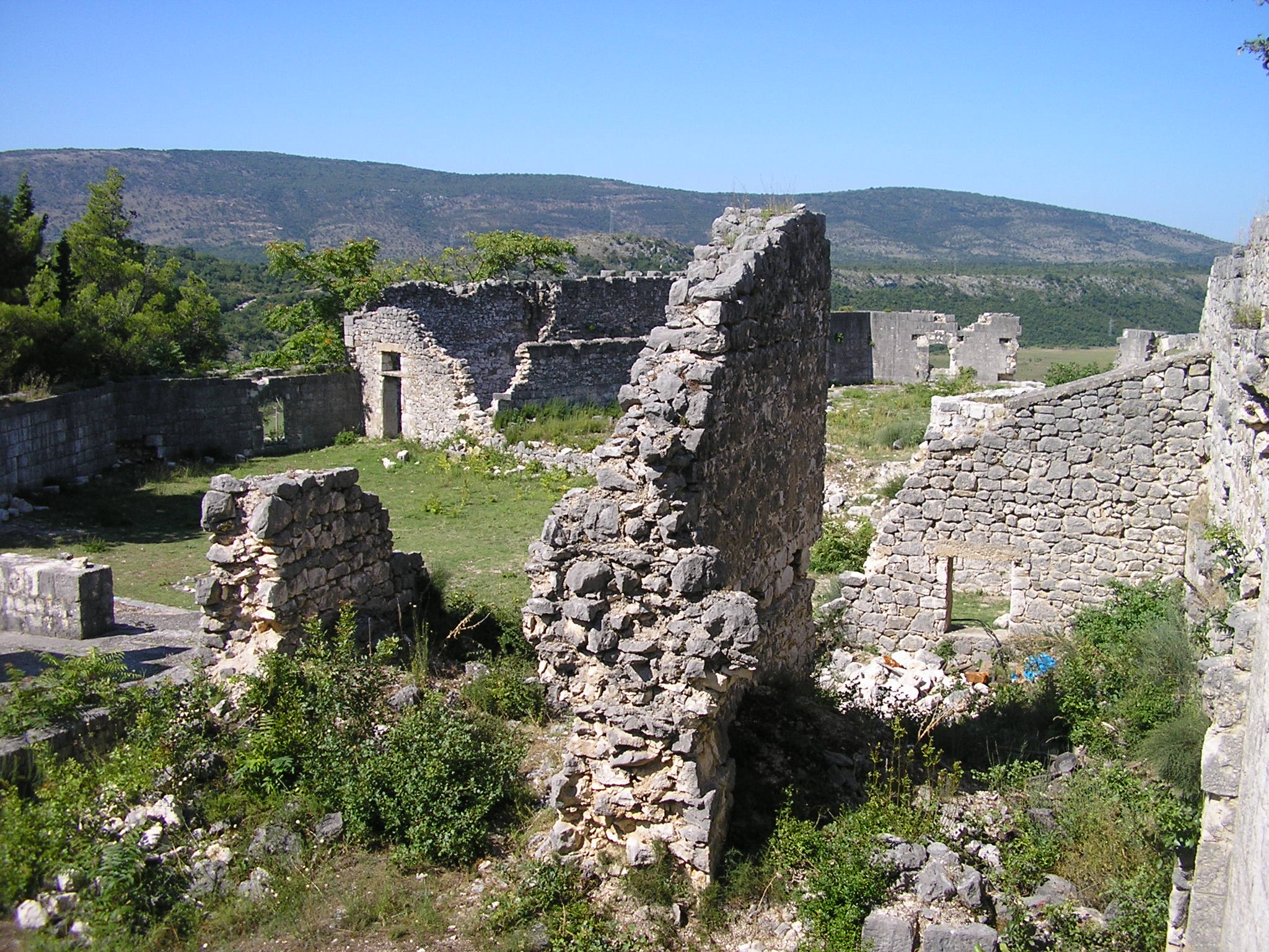 Vidoski, old town Stolac